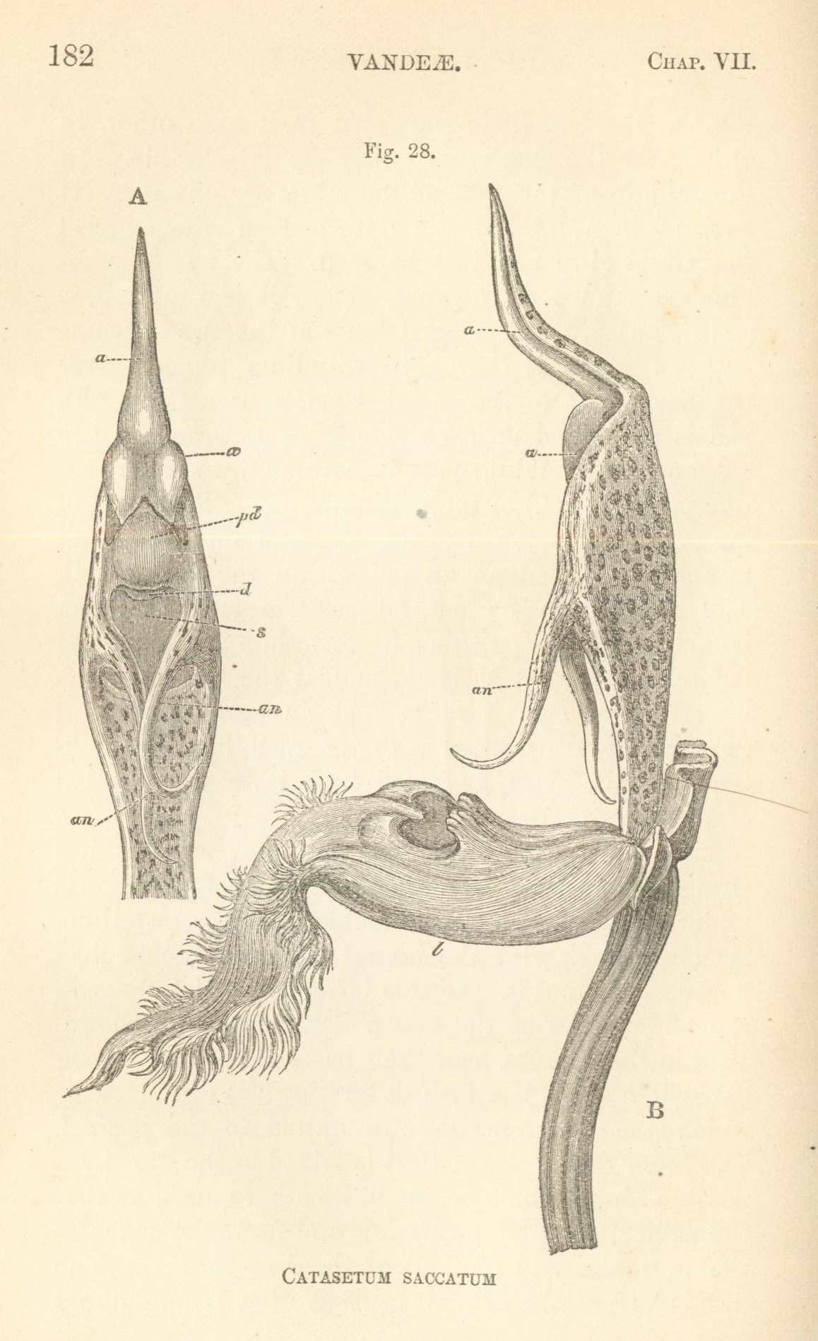 Figure 28 from the 1877 edition of Charles Darwin's Fertilisation of Orchids. Scanned from a copy of the work at the University of Massachusetts Amherst.